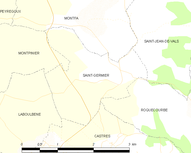 Map commune FR insee code 81252.png - Saint-Germier (Tarn)